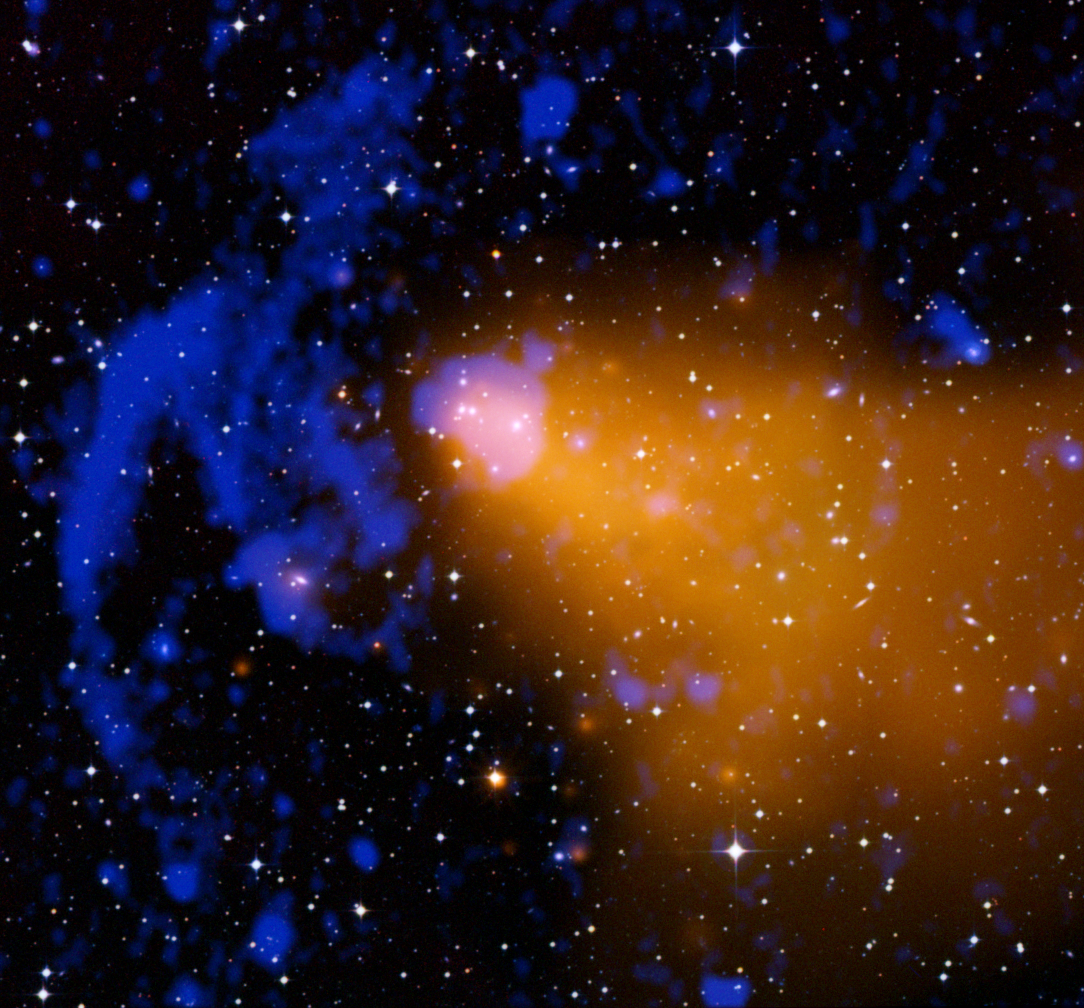 Galaxy cluster Abell 3376